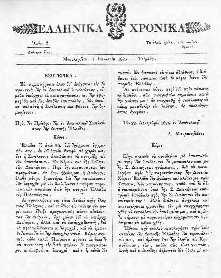 First page of the newspaper Ellinika Chronika ( Ελληνικά Χρονικά , Greek Anals), published in Messologi, 1824-1826